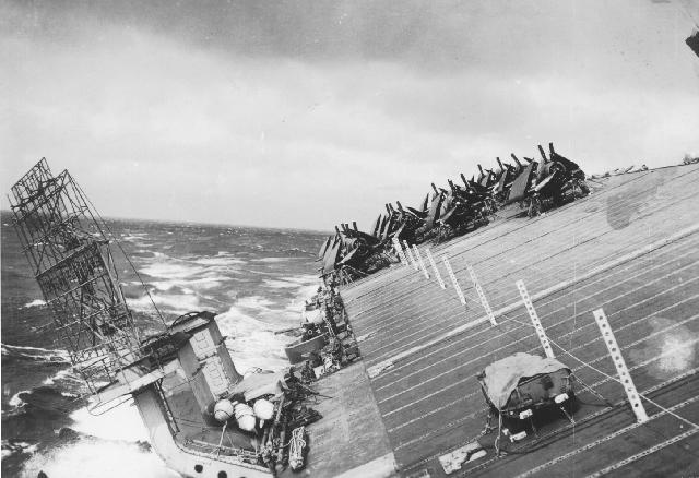 A view of USS Cowpens (CVL-25) starboard side flight deck facing aft from the island. Photo taken around the time Typhoon Cobra hit the Third Fleet on 18 December 1944